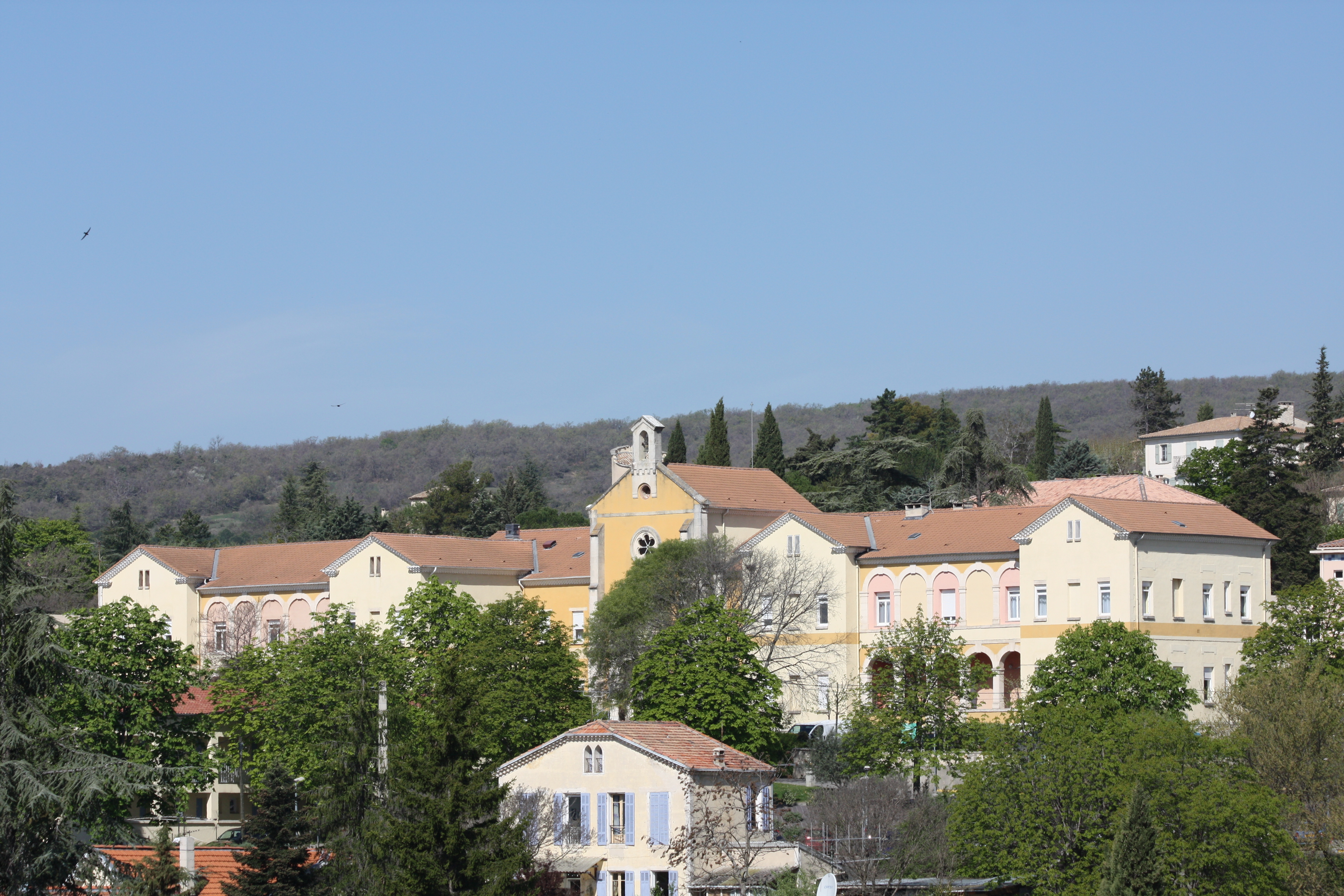 Forcalquier hospital